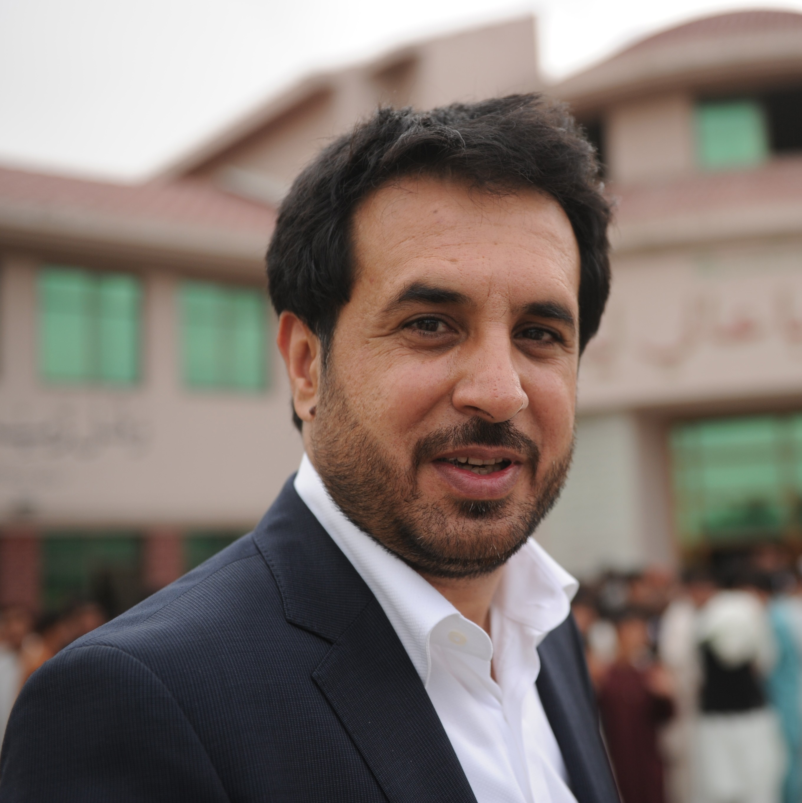 Minister of Border and Tribal Affairs, Asadullah Khalid, attends the inauguration of the Access English program at Rahman Baba High School in Kabul, Afghanistan on Saturday, June 4, 2011.